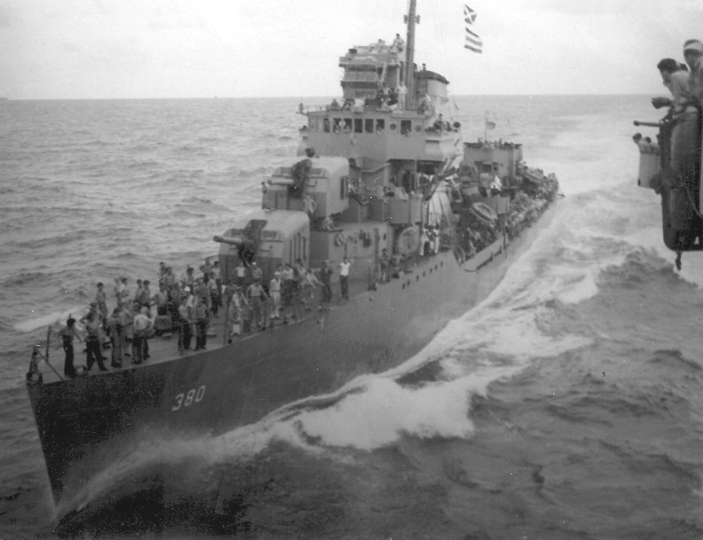 The U.S. Navy destroyer USS Gridley (DD-380) photographed from the deck of an aircraft carrier somewhere in the Western Pacific, circa 1944-1945.